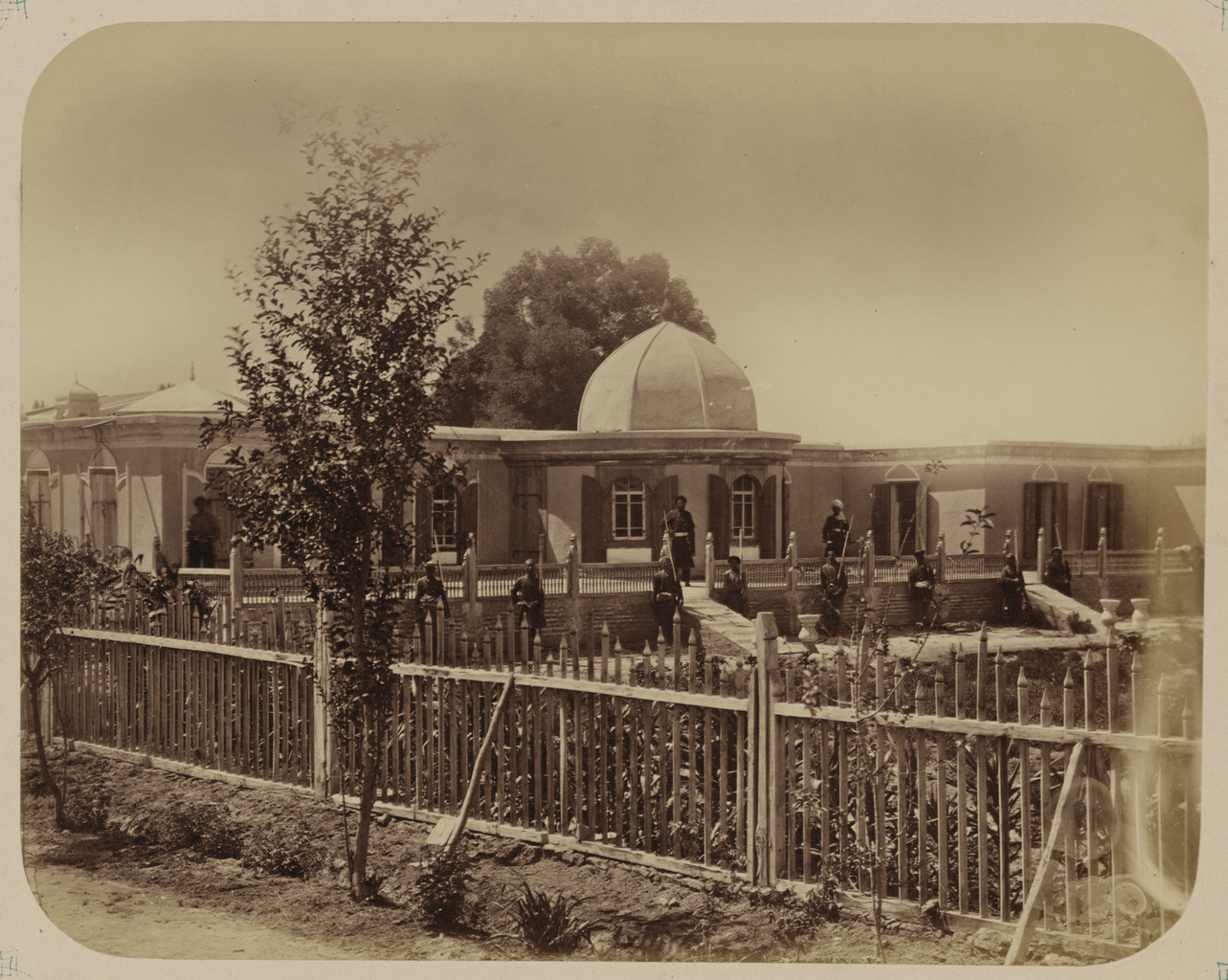 This photograph is from the ethnographical part of Turkestan Album, a comprehensive visual survey of Central Asia undertaken after imperial Russia assumed control of the region in the 1860s. Commissioned by General Konstantin Petrovich von Kaufman (1818–82), the first governor-general of Russian Turkestan, the album is in four parts spanning six volumes: “Archaeological Part” (two volumes); “Ethnographic Part” (two volumes); “Trades Part” (one volume); and “Historical Part” (one volume). The principal compiler was Russian Orientalist Aleksandr L. Kun, who was assisted by Nikolai V. Bogaevskii. The album contains some 1,200 photographs, along with architectural plans, watercolor drawings, and maps. The “Ethnographic Part” includes 491 individual photographs on 163 plates. The photographs show individuals representing the different peoples of the region (Plates 1–33); daily life and rituals (Plates 34–91); and views of villages and cities, street vendors, and commercial activities (Plates 92–163). Castles and palaces; Ethnographic photographs; Photographic surveys; Soldiers; Turkic peoples